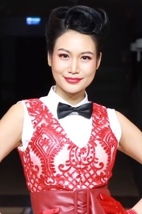 Miss Universe Thailand 2018, Sophida Kanchanarin at fashion show 2019.